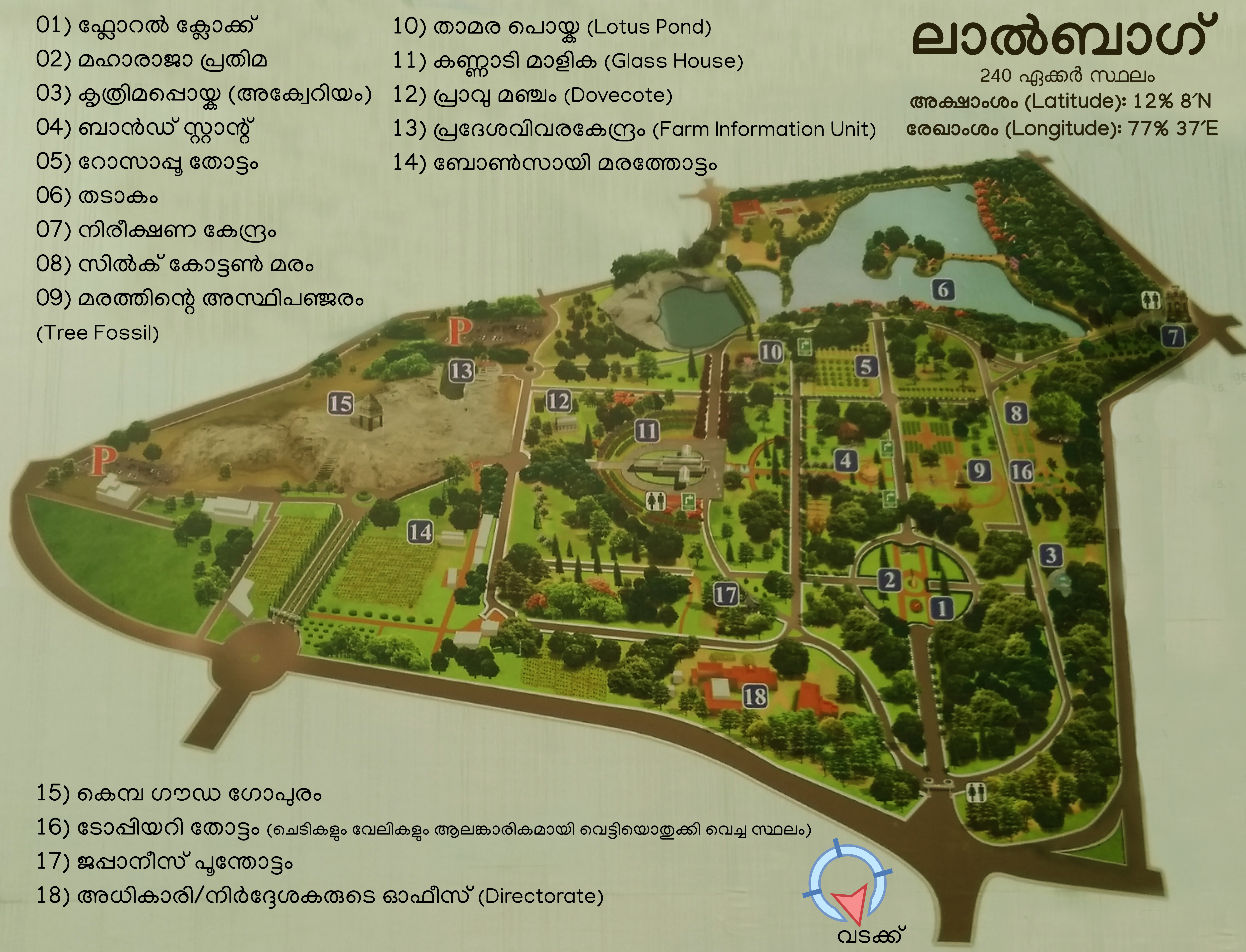 Structure and view of lal bagh garden in malayalam, Bangalore, India